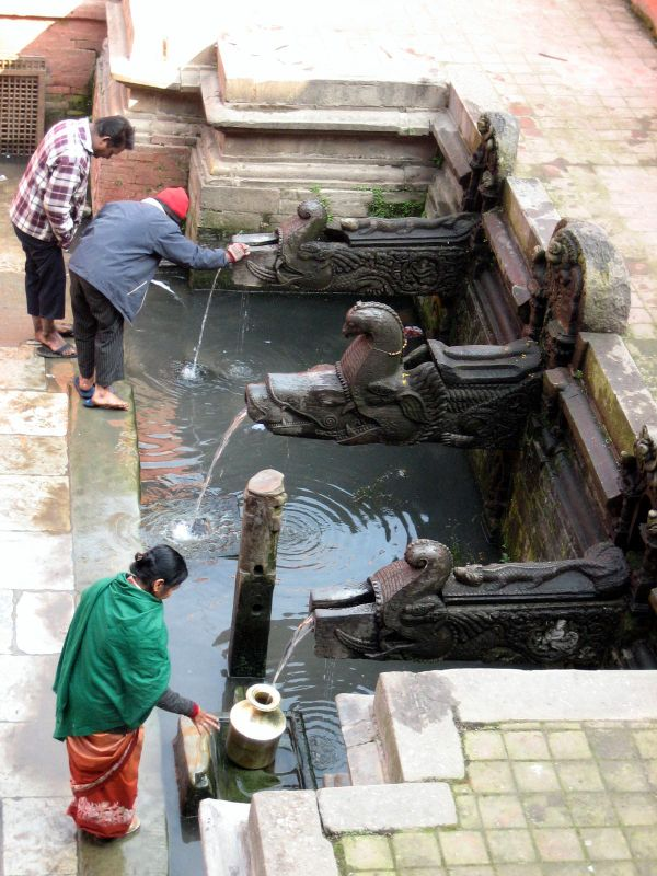 Water pumps, Durbar Square, Kathmandu, Nepal